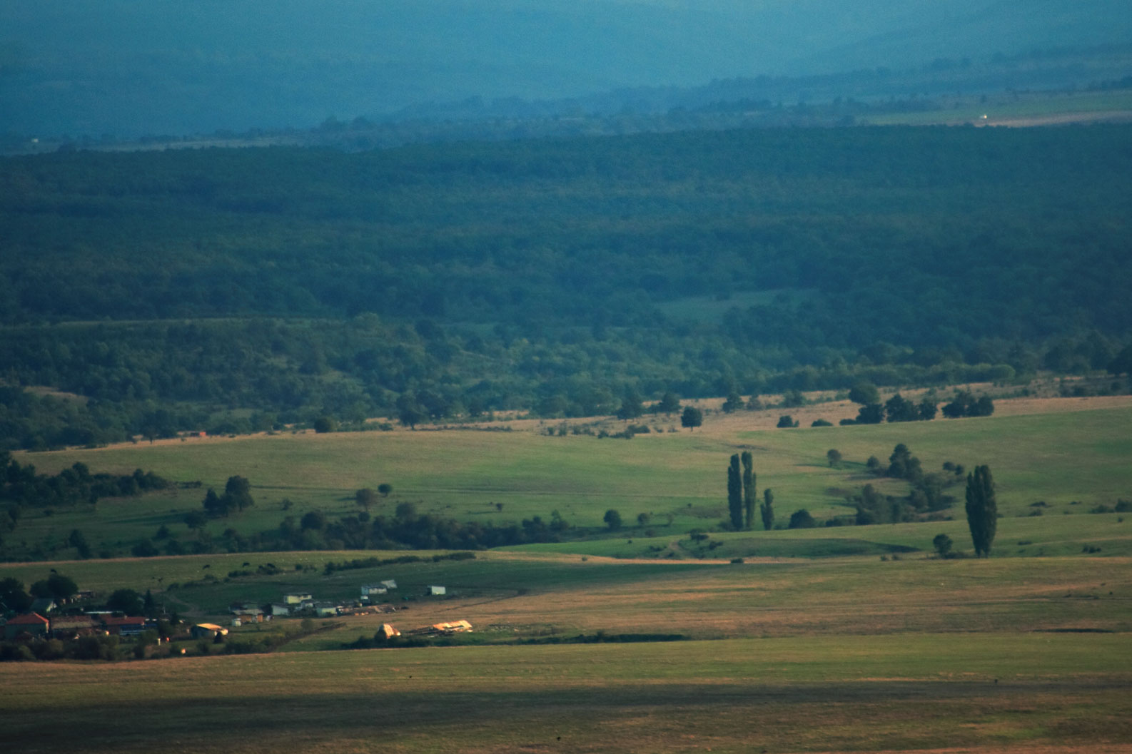 View from Goli Bair peak